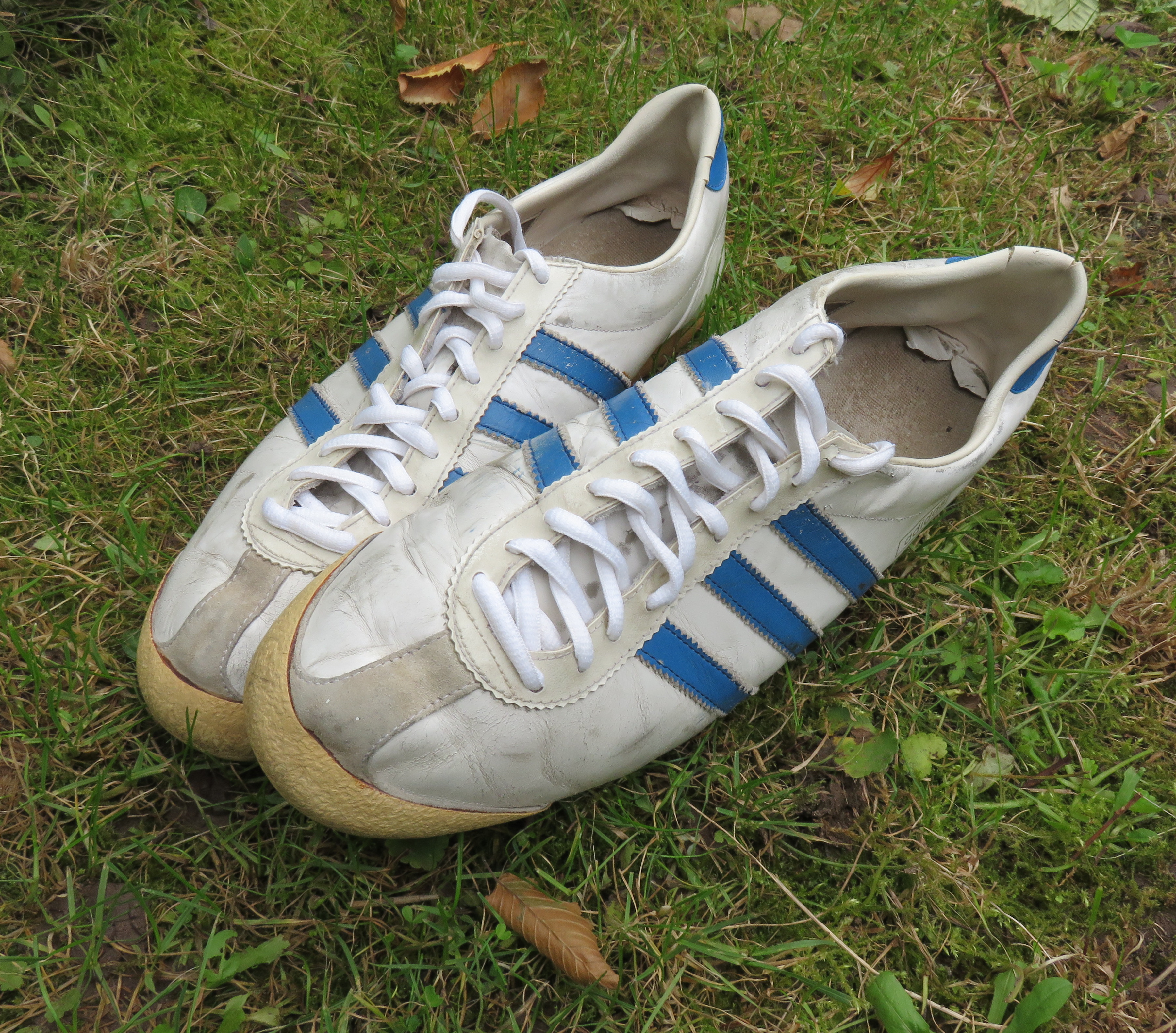 Adidas shoes "Rom" from 1970